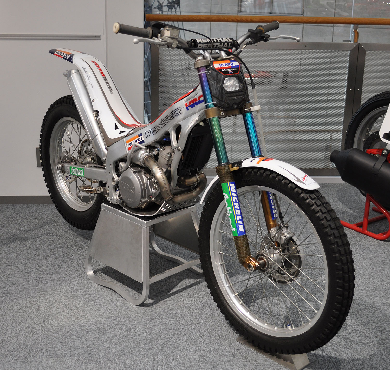 Montesa COTA 315R (2004, Takahisa Fujinami)